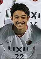 Persepolis FC v Kashima Antlers (0-0), 2018 AFC Champions League Final, Second leg, 10 November 2018